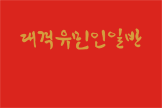 Flag of the Korean People's Revolutionary Army / Anti-Japanese People's Guerilla Army, founded on 25, predecessor of the modern Korean People's Army. Text: 반일인민유격대